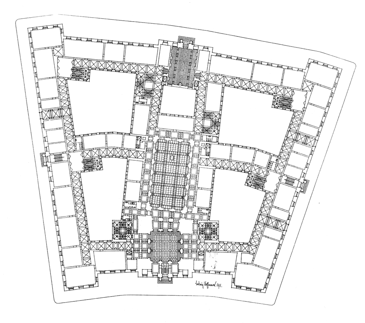 Outline of the Altes Stadthaus, Berlni